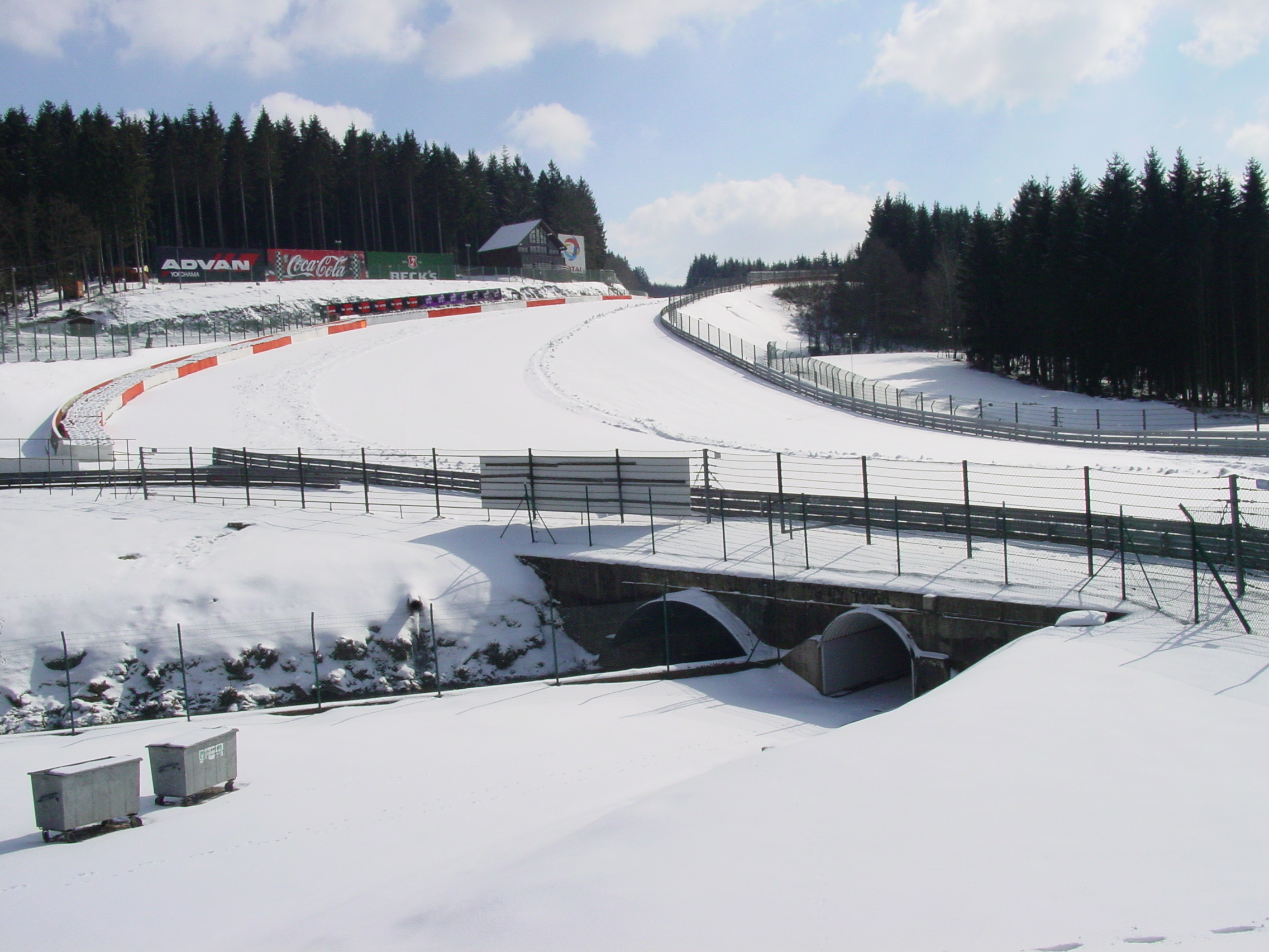 The Eau Rouge corner on the Spa-Francorchamps motor-racing circuit in Belgium. Photograph taken by David Edgar in March 2006.